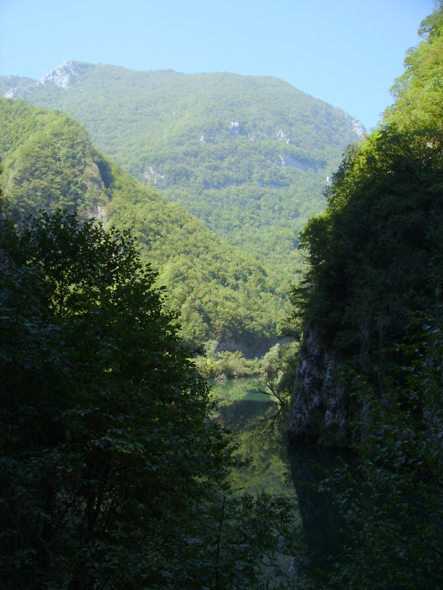 In the gorge of Vrbas River north of Jajce, Bosnia.